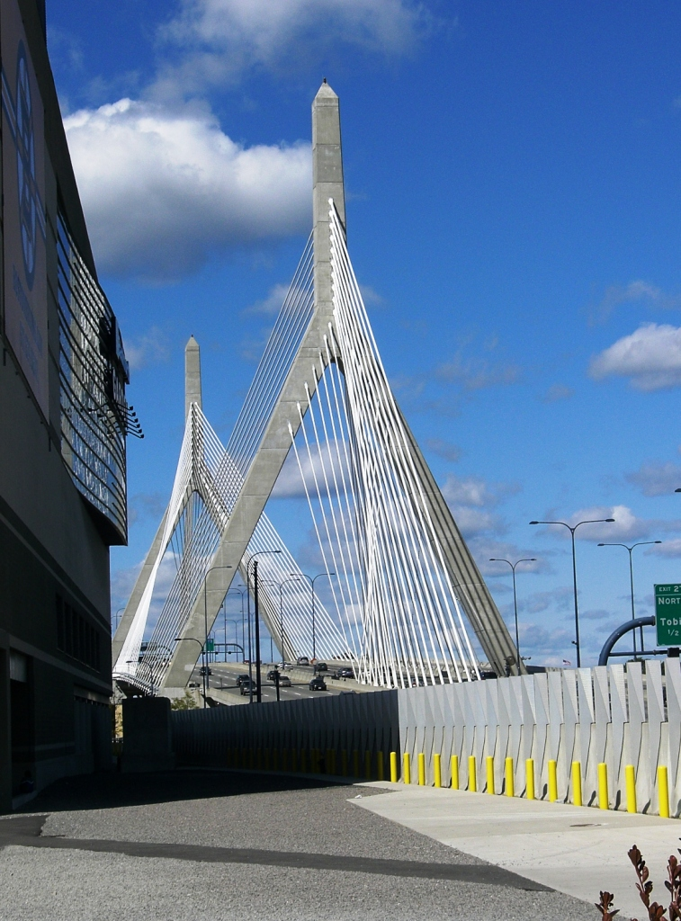 Boston, L. P. Zakim bridge